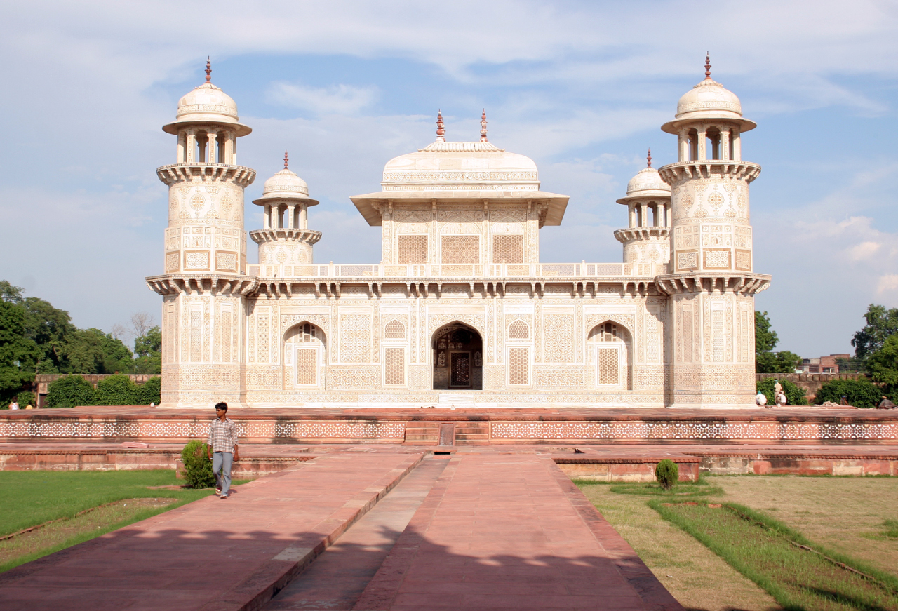 Itmad-Ud-Daulah's Tomb (Baby Taj).